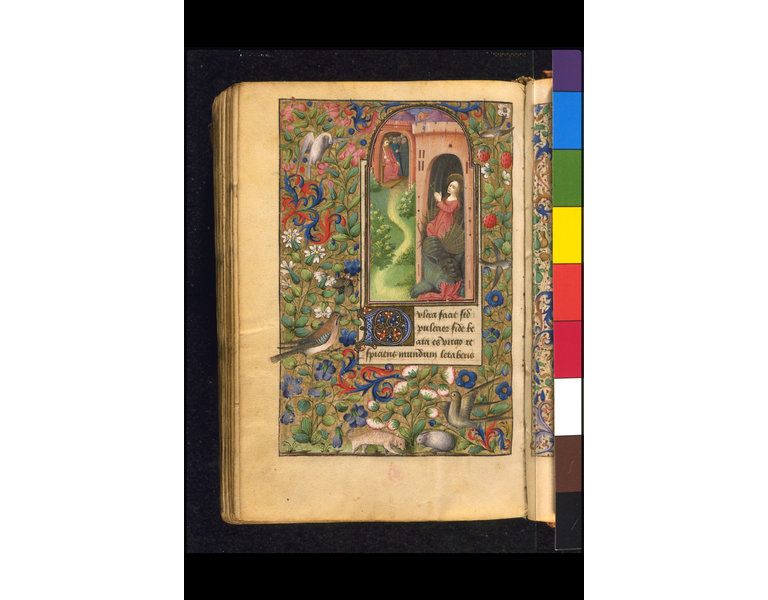 This image shows a folio from the medieval manuscript "Book of Hours of Margaret of Foix".